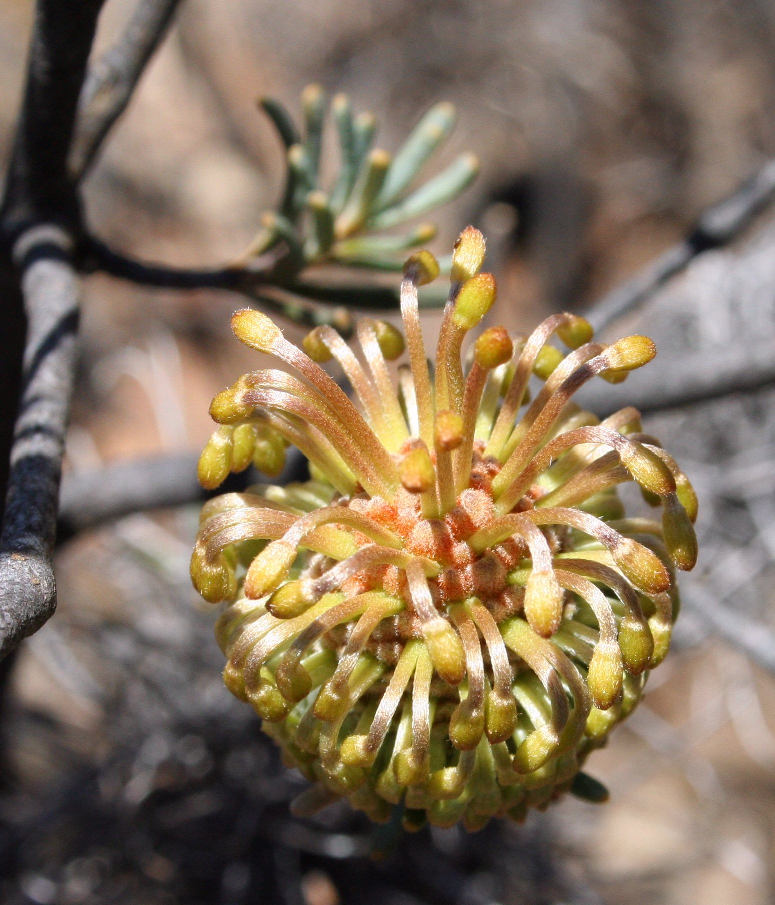 Closeup of inflorescence in bud - Banksia violacea